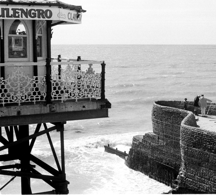 Black and white photograph of a pier - to be contrasted with a similar but solarised print